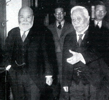 Japan’s Lord Keeper of the Privy Seal Makoto Saitō (内大臣・齋藤實, 1858–1936), visits his close friend, Finance Minister Korekiyo Takahashi (高橋是清, 1854–1936) at his official residence on 20 February 1936. Less than a week after this photograph was taken, both were assassinated by ultranationalistic Army officers in the February 26 Incident (二・二六事件).